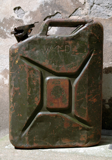 British copy of a German Wehrmacht-Einheitskanister 1943